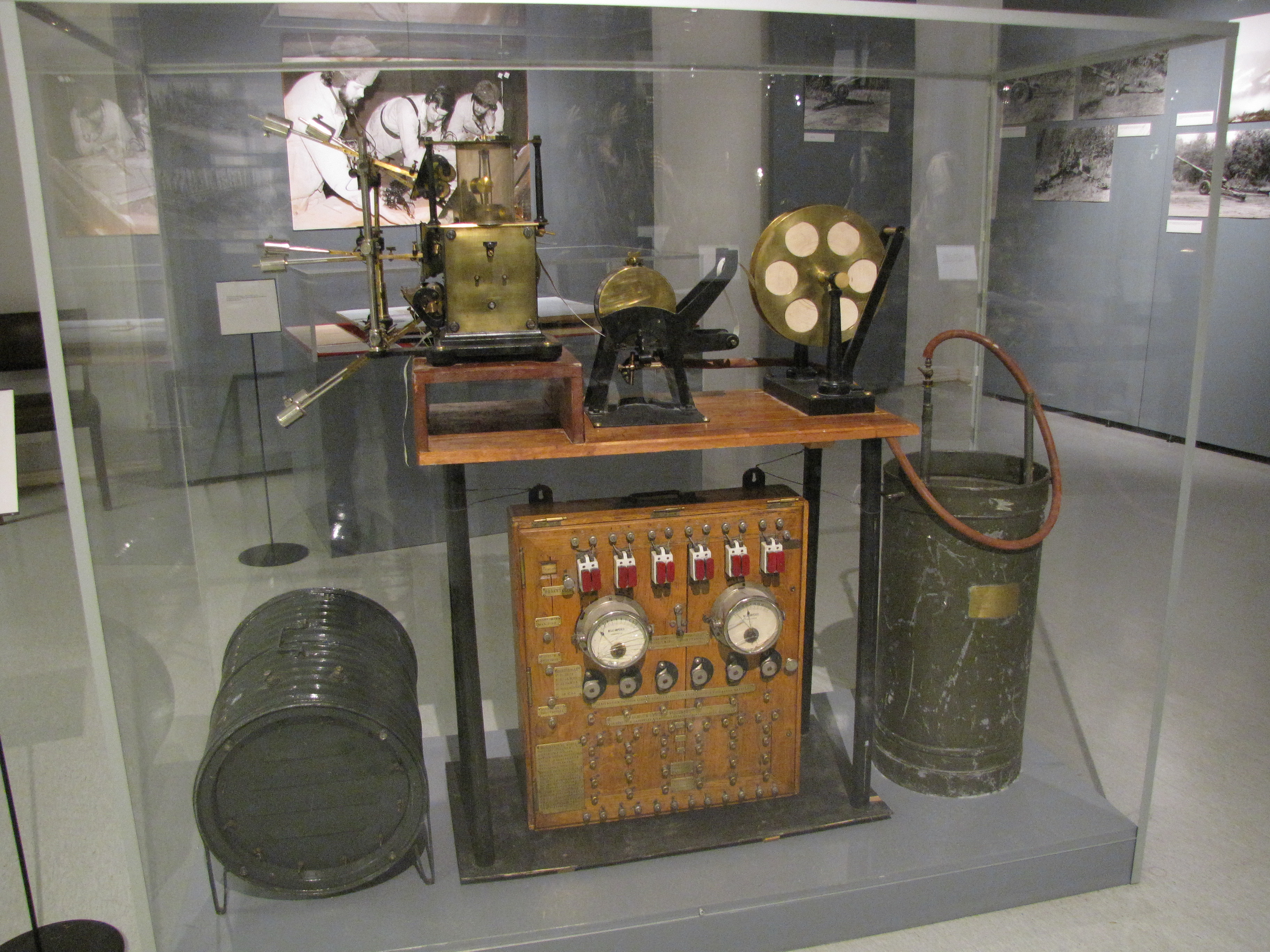 Recording unit of French artillery sound ranging system. Purchased by Finland in 1927. Photographed in Hämeenlinna artillery museum.